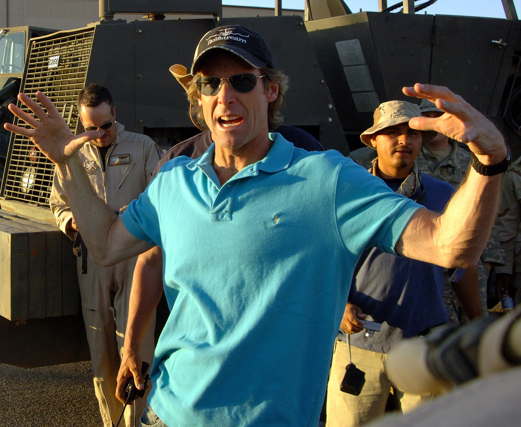 Movie director Michael Bay instructs Airmen filling the roles of extras on the set of the movie "Transformers" at Holloman Air Force Base, N.M., on Tuesday, May 30, 2006. The movie is scheduled for release in June 2007.